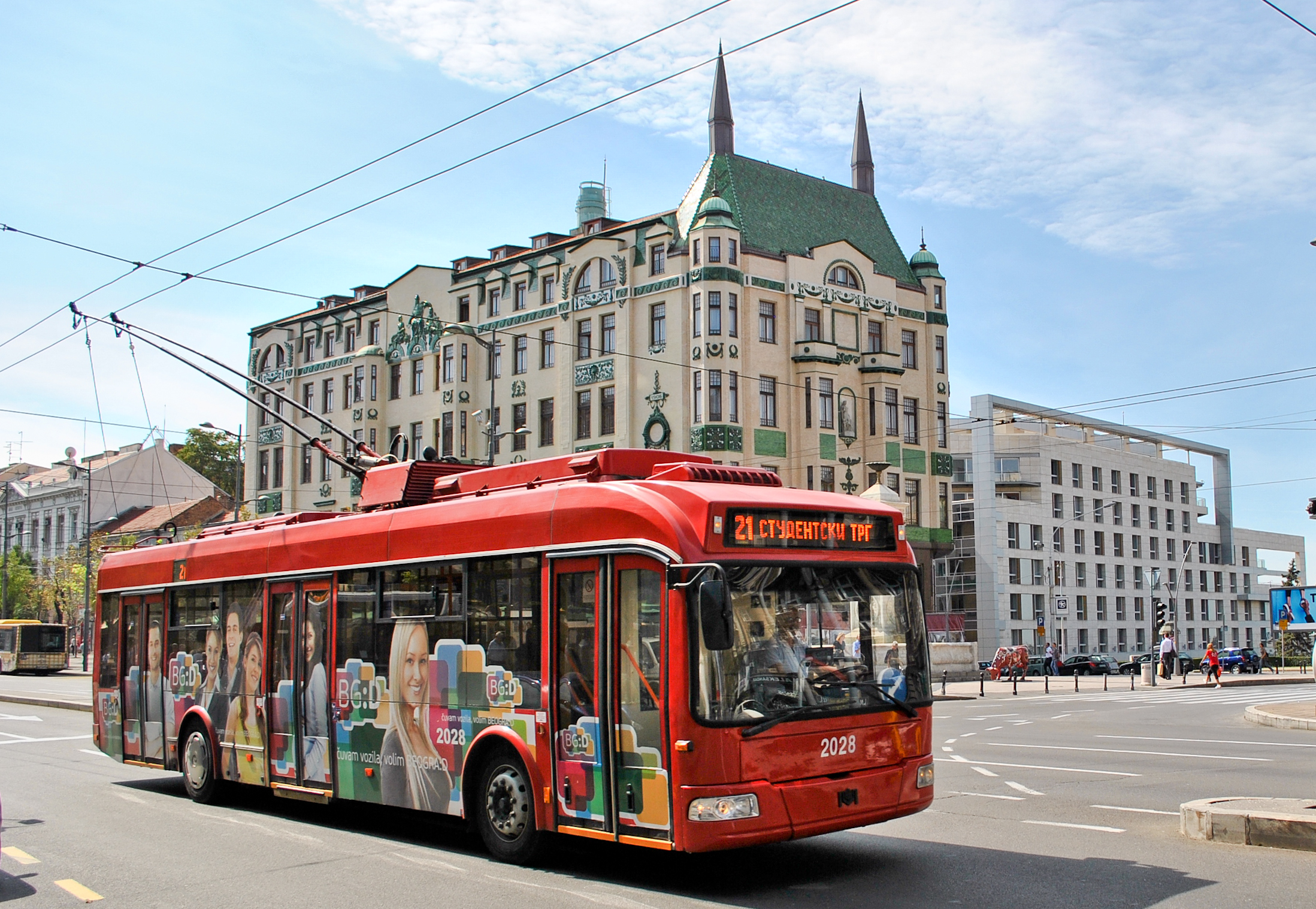 Trolleybus Terazije Square